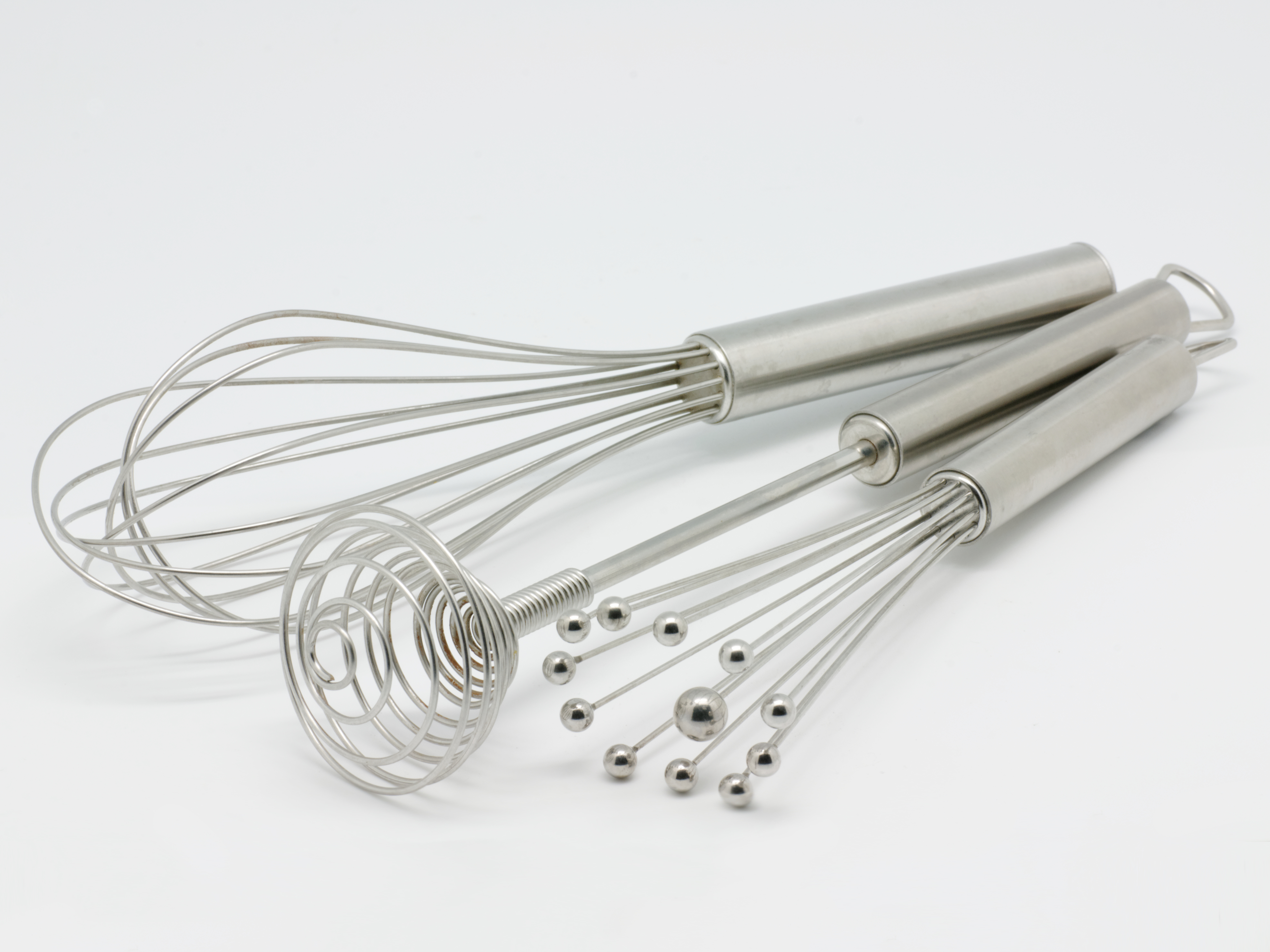 Different whisks: from left to right, balloon, spiral, and ball tip.